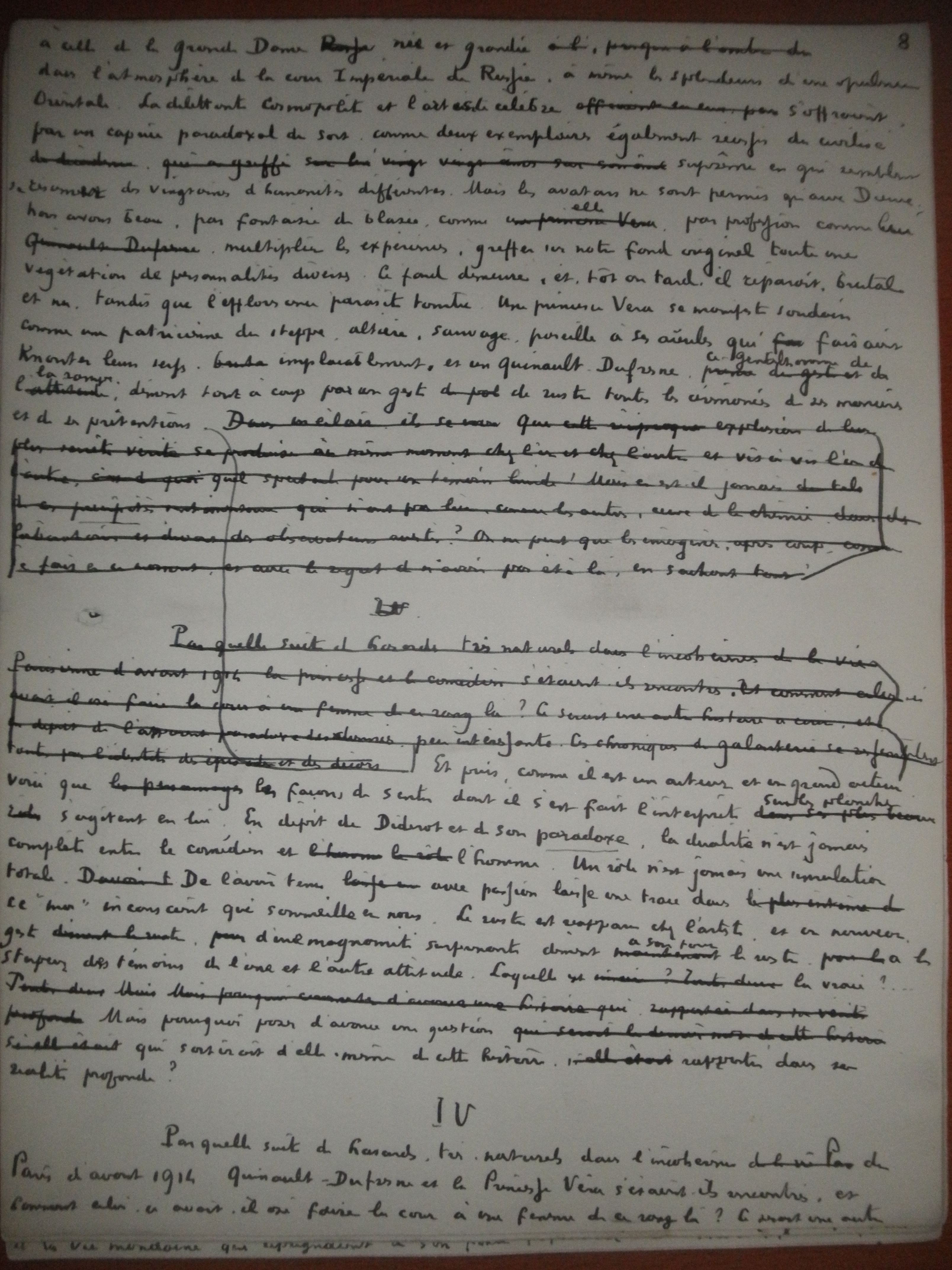 beau rôle 8